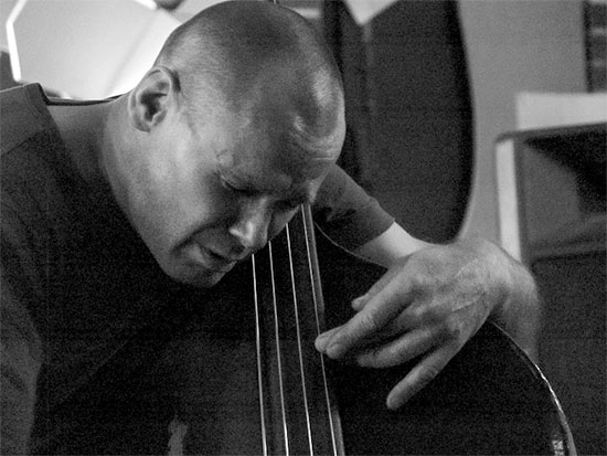 Peter Jacquemyn at Aarhus Jazz Festival 2012